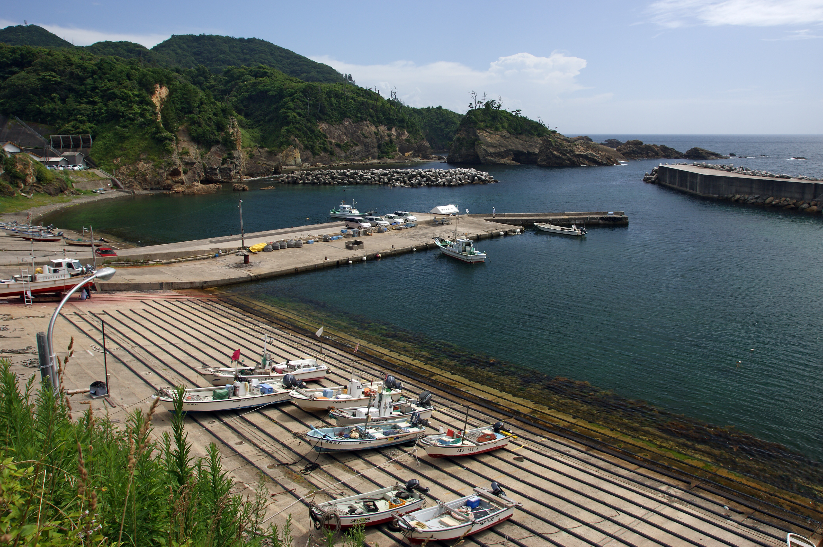 Cape Hinomisaki in Izumo, Shimane prefecture, Japan